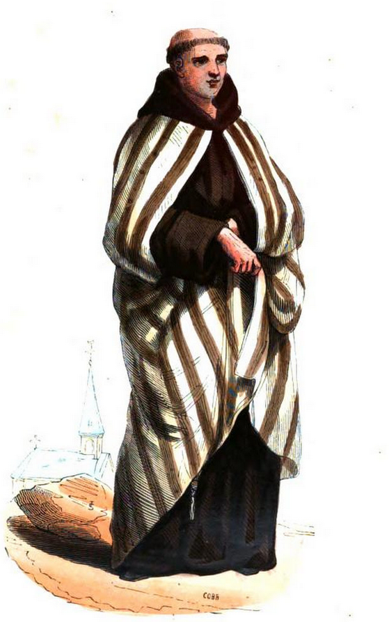 Picture from René Tiron, Histoire et costumes des ordres religieux, civils et militaires, Volume 1, Librairie historique-artistique, 1845